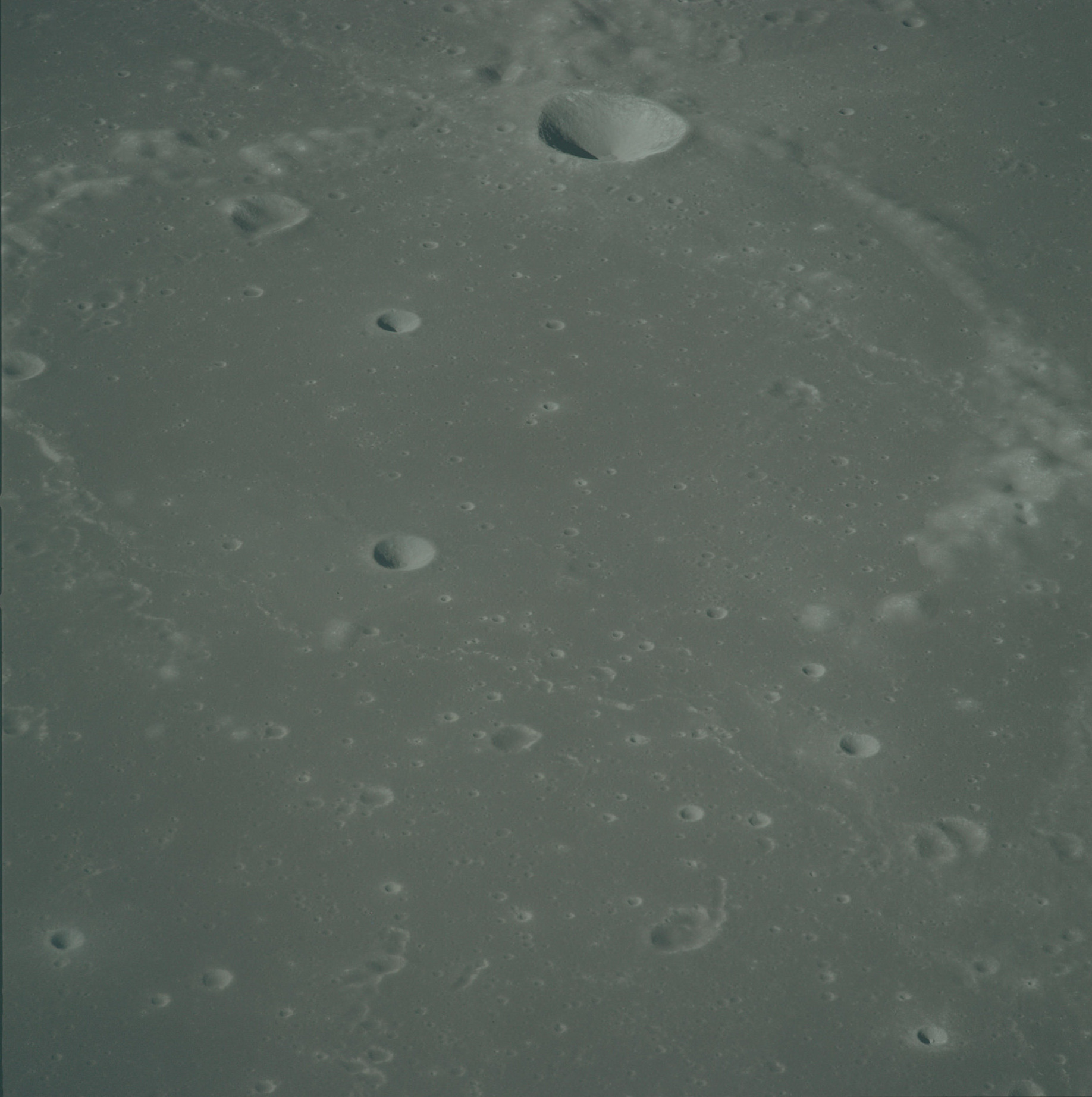 Oblique view of Opelt crater, on the moon